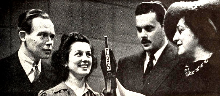 Four members of the cast of Joyce Jordan -- Girl Interne -- later titled Joyce Jordan, M.D. -- are shown in this image from Radio Varieties magazine's September 1940 issue. From left: Myron McCormack (as Paul Sherwood), Ann Shepherd (as Joyce Jordan), Erik Ralf (as Dr. Hans Simons) and Adelaide Klein, who played a variety of roles.